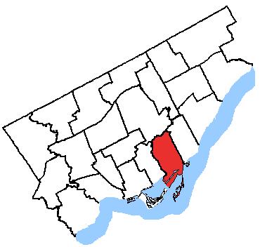 Map of the Toronto—Danforth electoral district. Based on Earl Andrew's :Image:Ct04.PNG and :Image:St04.PNG, created by SimonP.